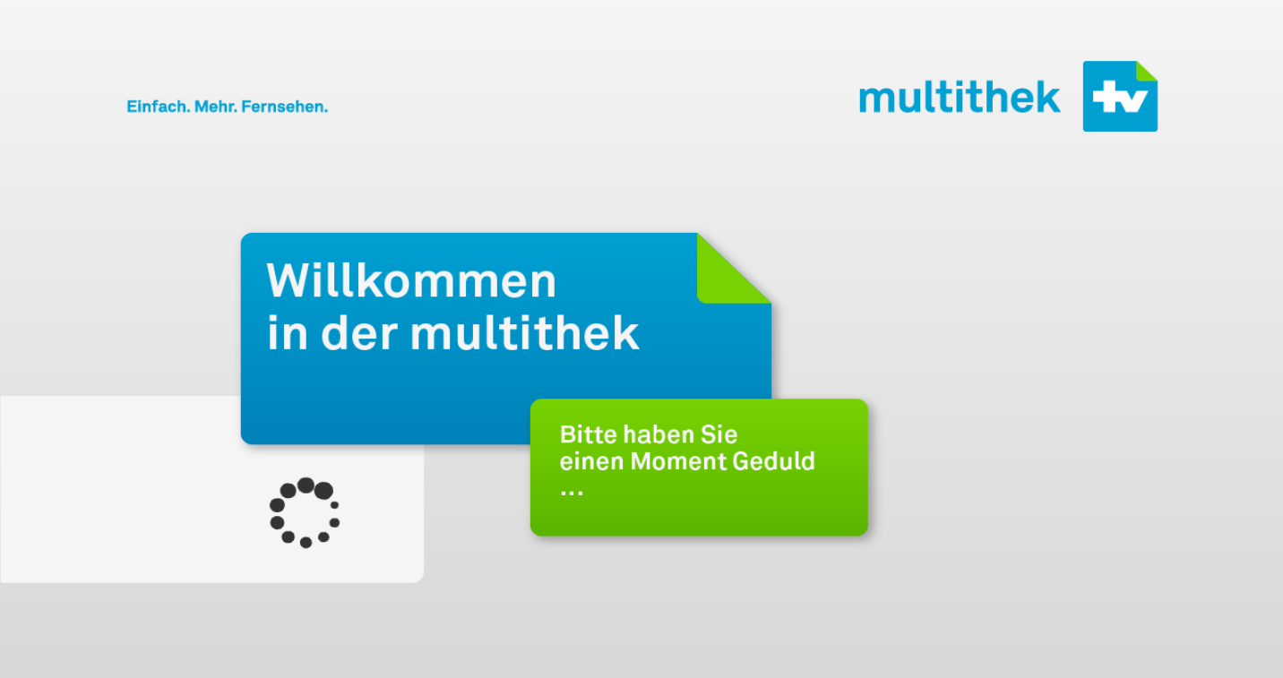 This is a screenshot of the loading screen of the HbbTV-Platform multithek.